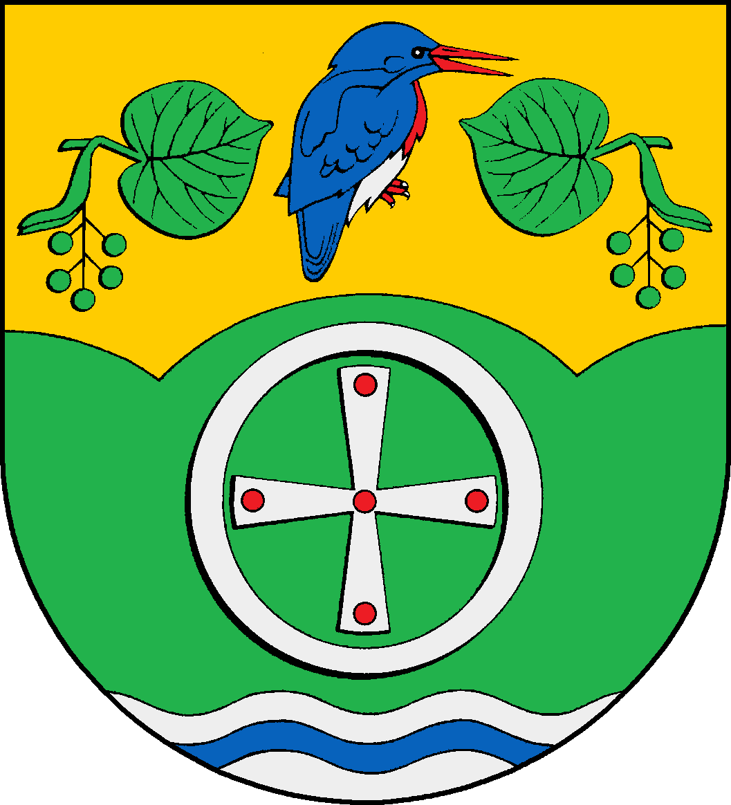 Coat of arms of the municipality Bälau in Schleswig-Holstein, Germany.